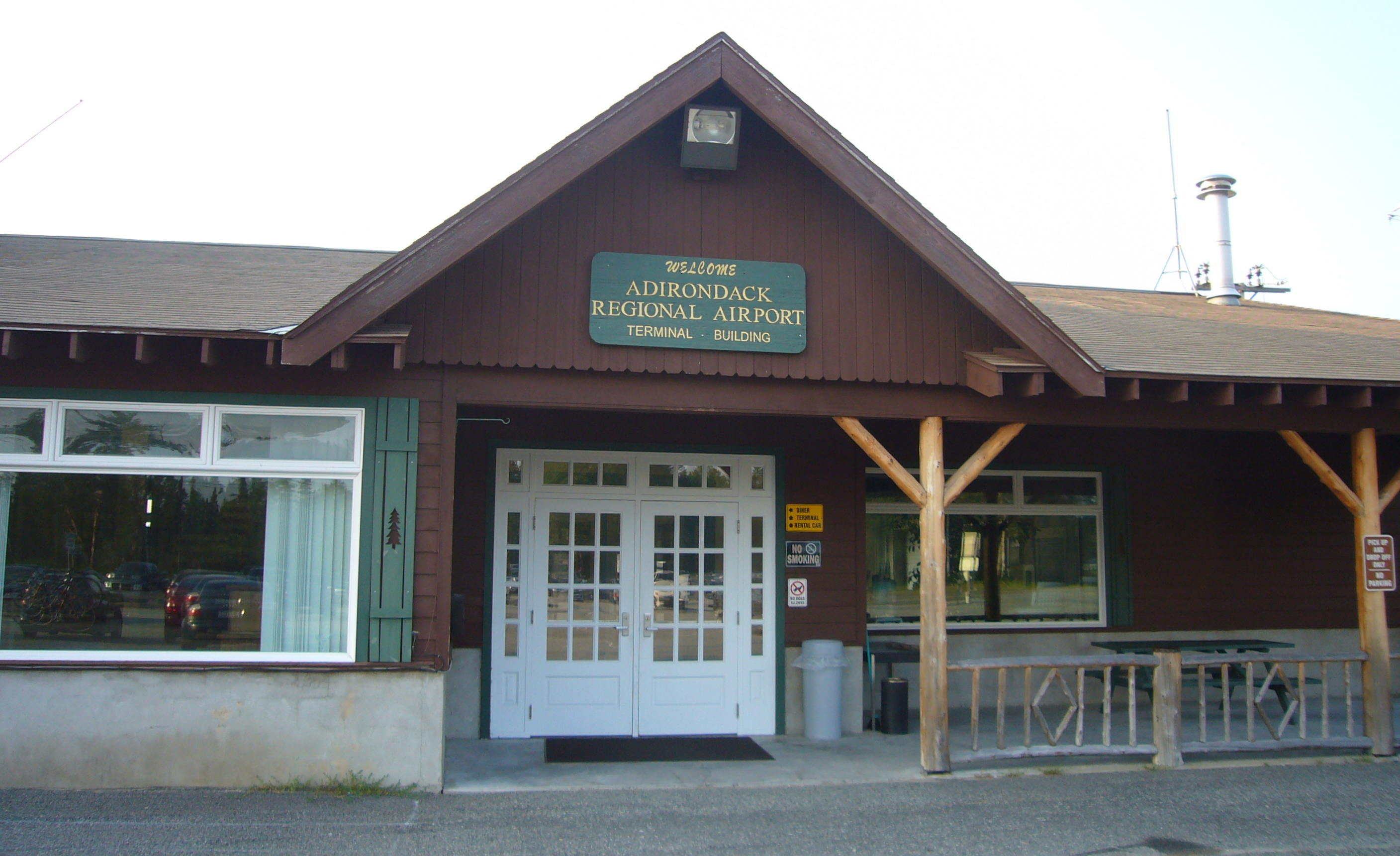 Terminal Building (exterior), Adirondack Regional Airport, New York, USA